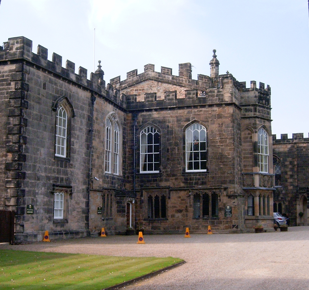 Auckland Castle